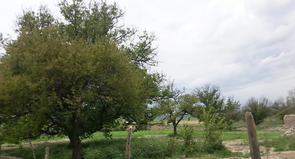 sain village pic